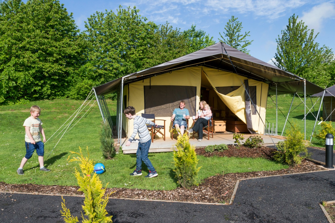 Themed accommodation at Gulliver's Land Resort. This includes Safari Glamping Tents.